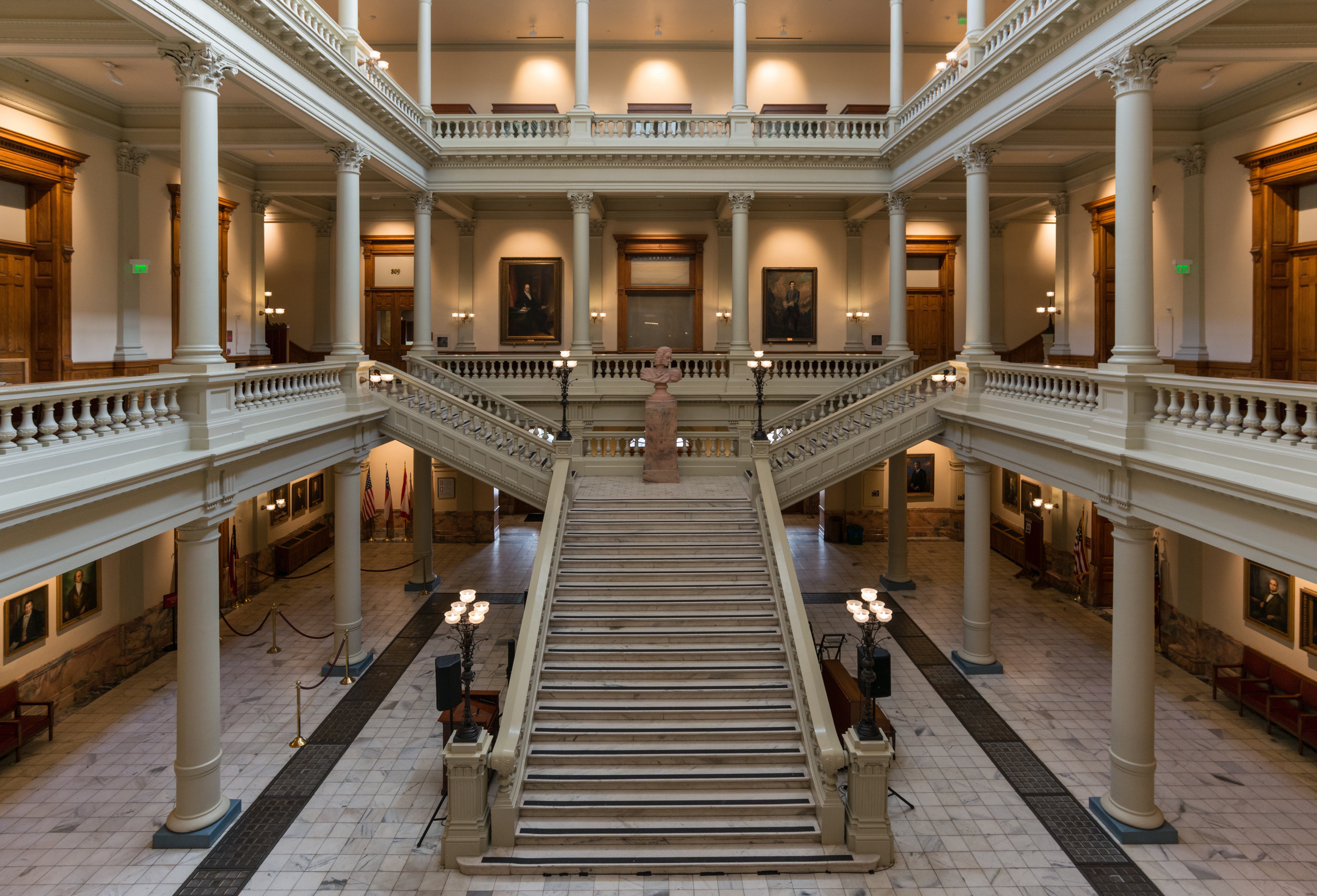 A view of the south atrium and staircase of the Georgia State Capitol